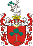 Herb Godziemba Clan File:POL COA Godziemba.svg is a vector version of this file. It should be used in place of this raster image when not inferior. File:Herb Godziemba.PNG File:POL COA Godziemba.svg For more information, see Help:SVG. In other languages